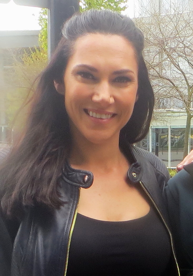 Kyra Zagorsky, Stephen Lobo, and I at the shoot for Continuum ep 4x04